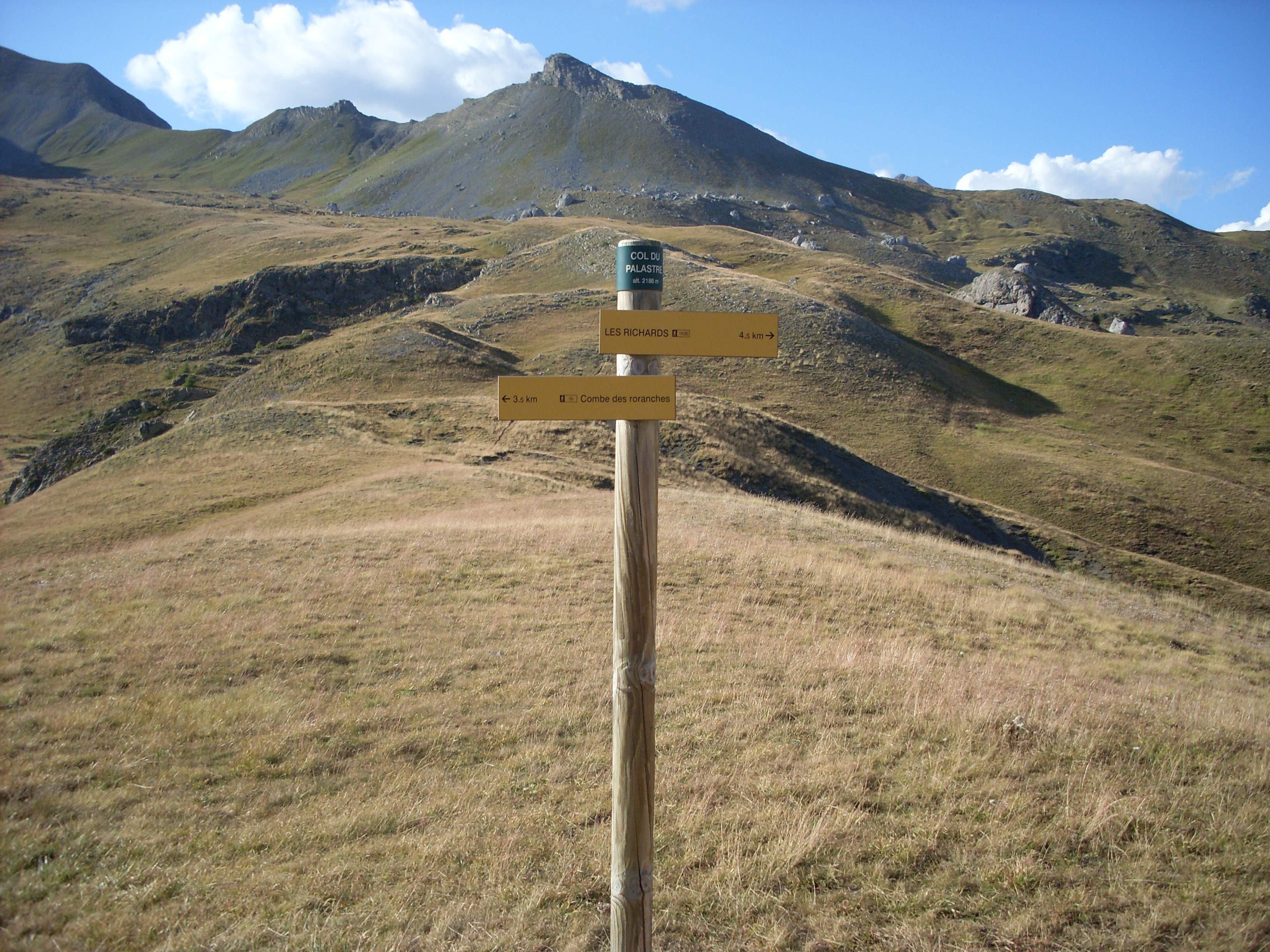 le col du palastre